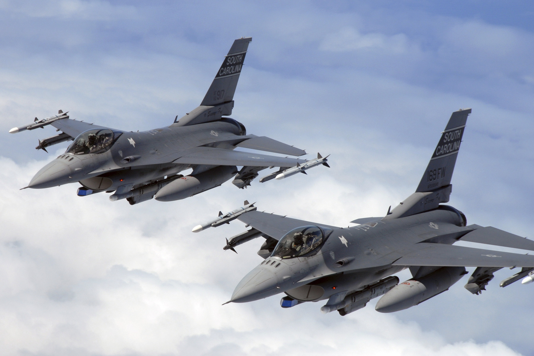 Swamp Foxes in the air. Demon flight of F-16 pilots from the 169th Fighter Wing, South Carolina Air National Guard flies a training mission in the KIWI MOA airspace over the coast of North Carolina.